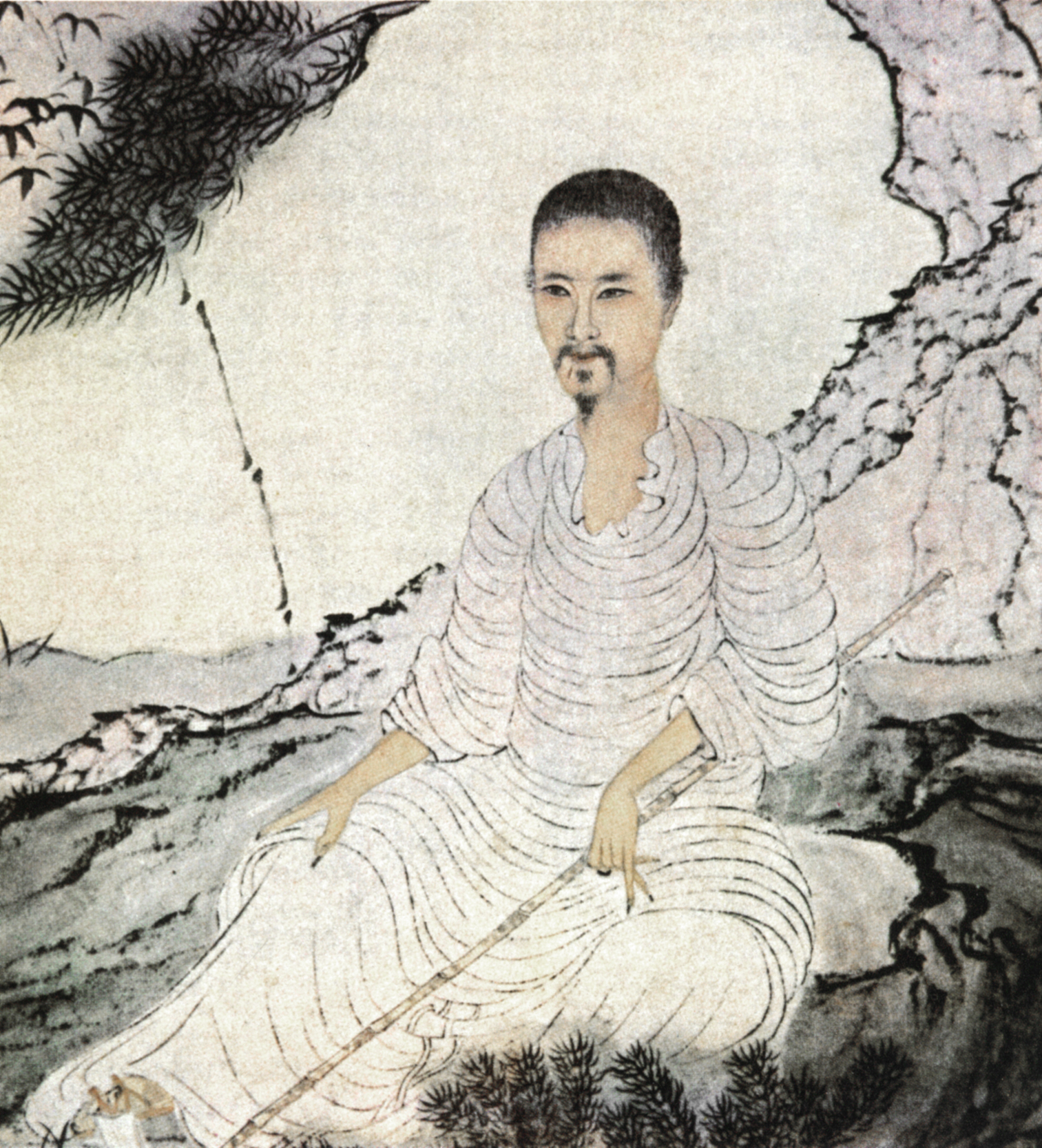 Master Shi Planting Pines (detail H near 21cm), hand scroll, ens. H 40,3 x L 170cm, light color on paper. Located at the National Palace Museum.